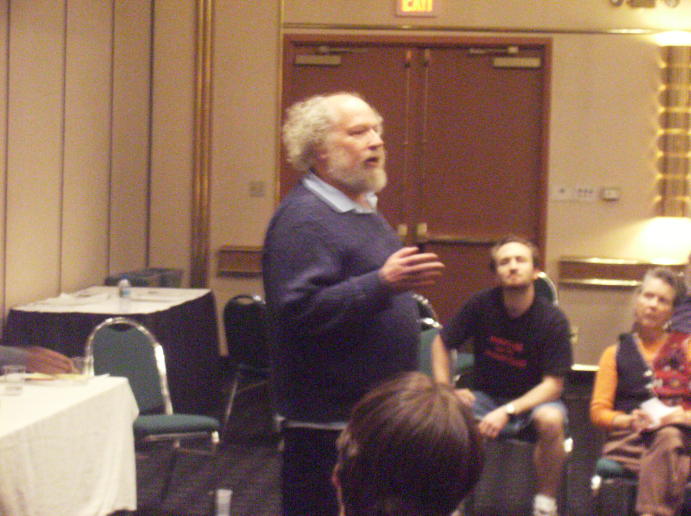 Eric Chester speaking to delegates of the Socialist Party USA National Convention at the "Meet the Candidates" forum in St. Louis, MO.